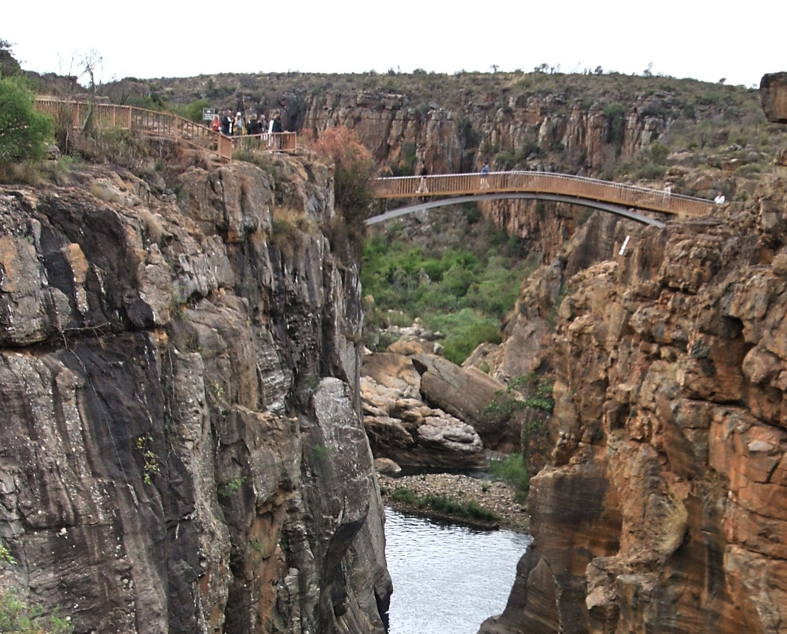 Bridge on the Treur-Blyde confluence at Bourke's Luck Potholes, in the upper Blyde River Canyon, South Africa This is an image with the theme "Africa on the Move or Transport" from: South Africa